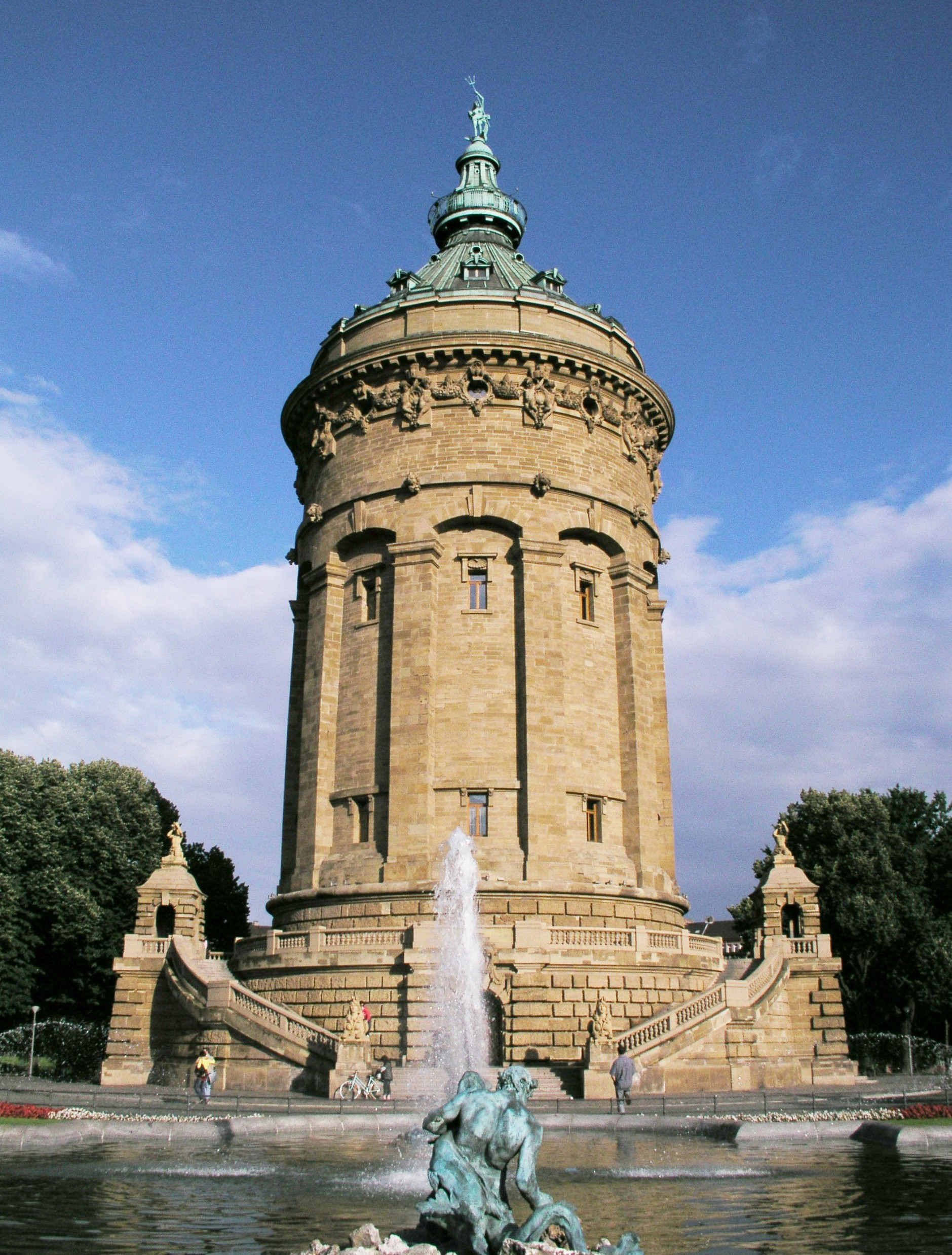 Watertower in Mannheim